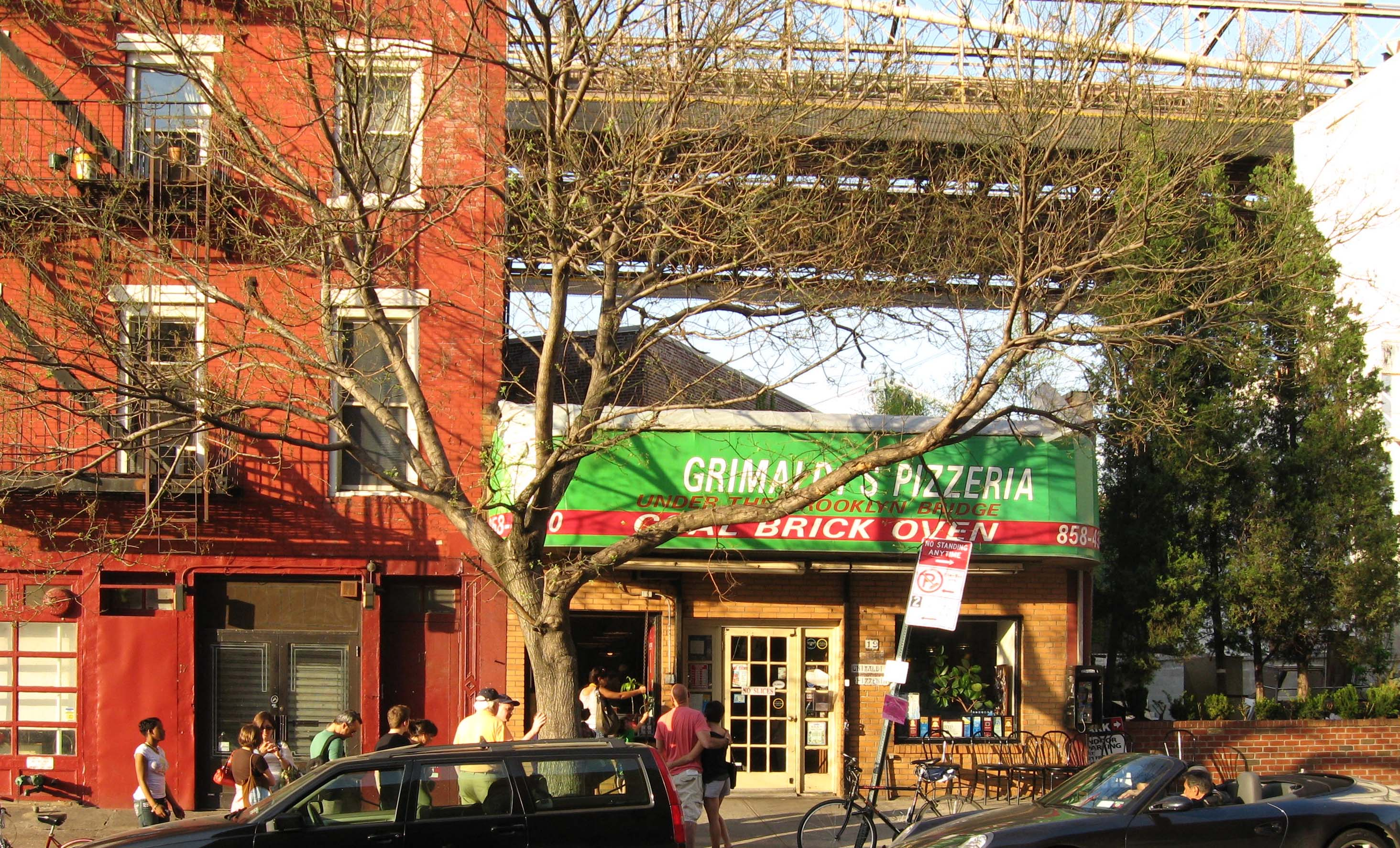 Looking east across Old Fulton Street at the original Grimaldi's Pizzeria shortly before Sunset on a mostly sunny springtime Wednesday with only a few waiting.